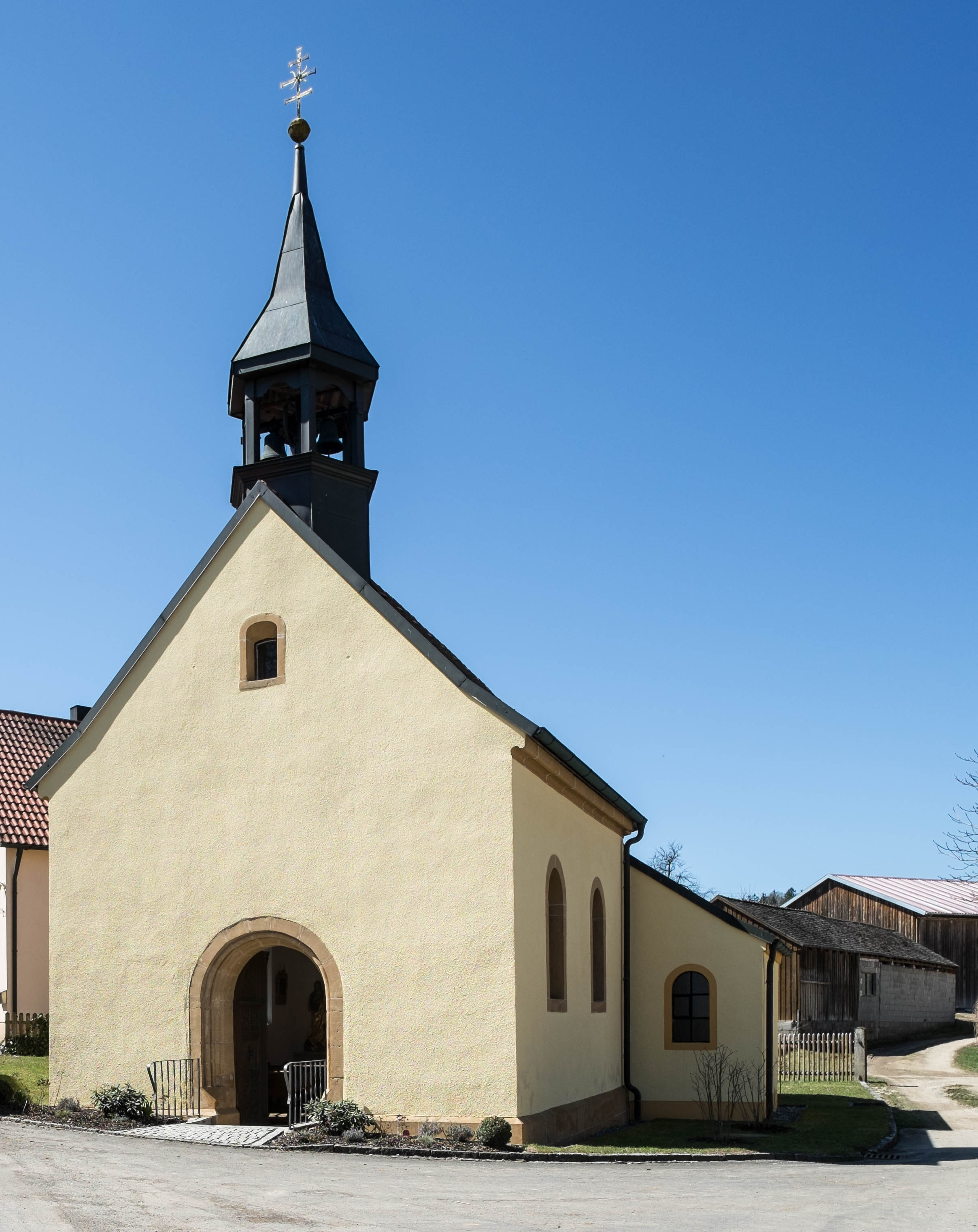 Subsidiary church Heilige Dreifaltigkeit, Hirschau-Krickelsdorf, district Amberg-Sulzbach, Bavaria, Germany